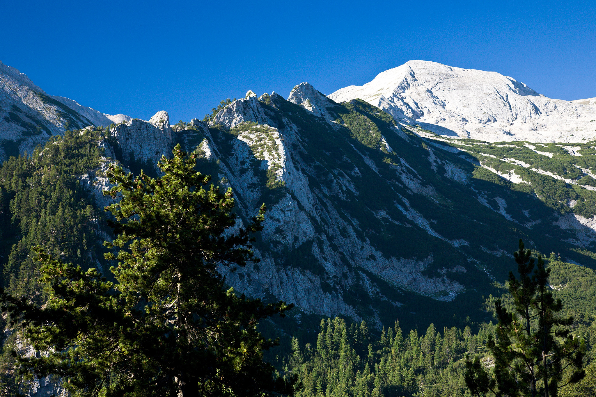 Bajuva dupka summit in Pirin mountain, Bulgaria. Trees in foreground are Pinus heldreichii.